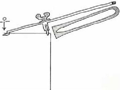 Rotating wheel can opener US patent 105,346